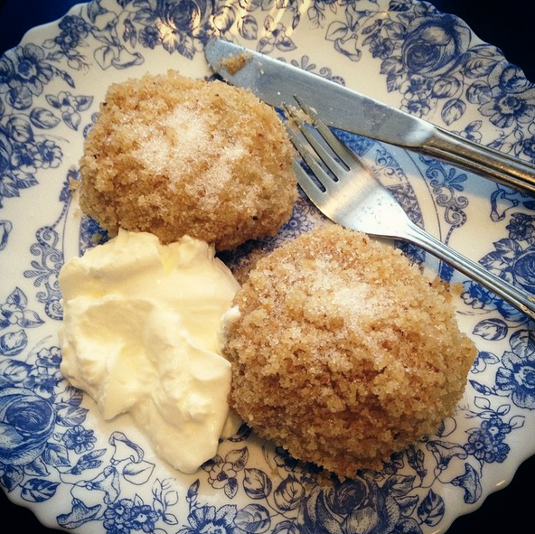 Croatian dumplings with plums and a side of sour cream